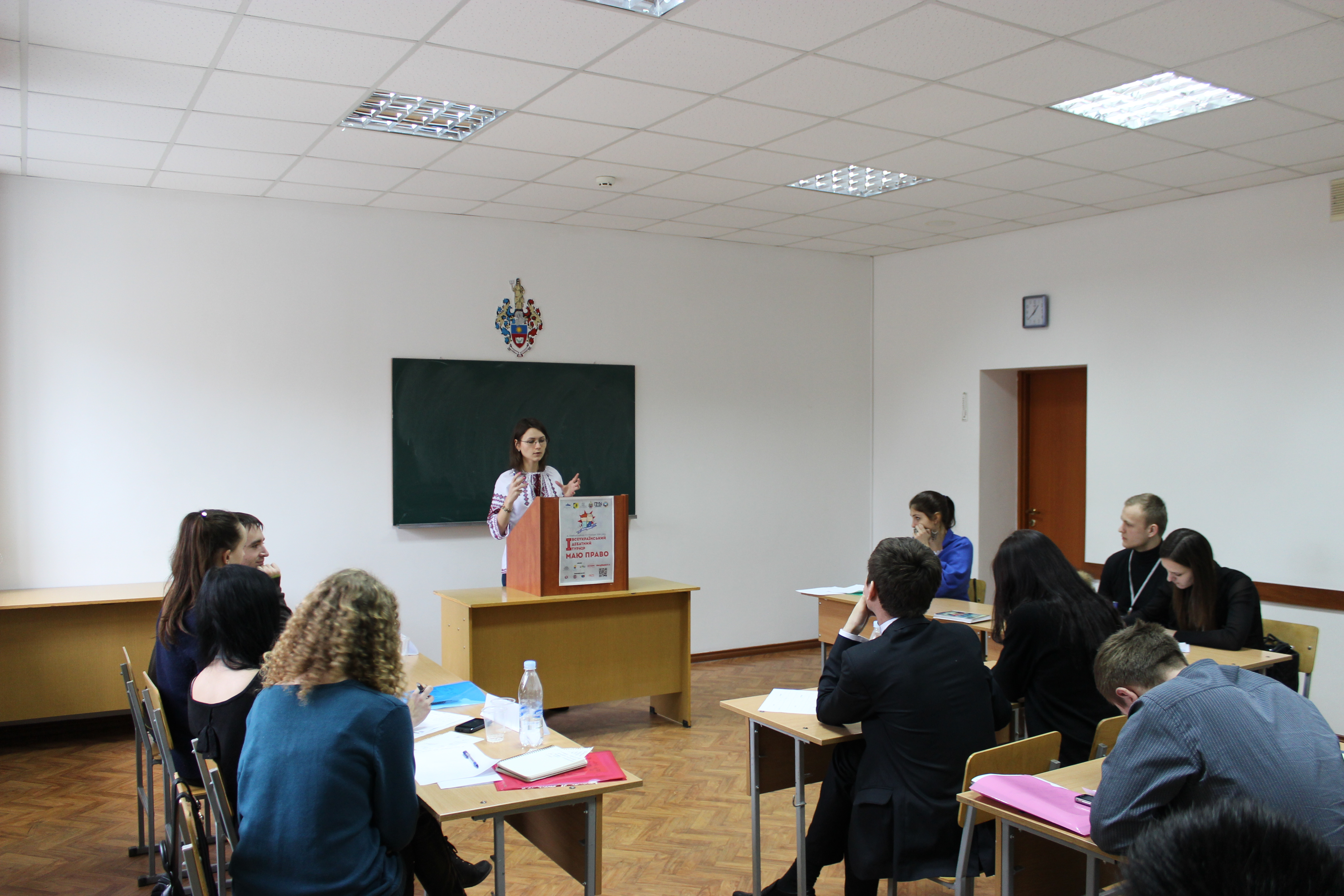 Educational debating in Khmelnytskyi. The British Parliamentary debating style.